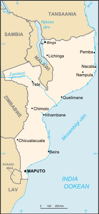 Map of Mozambique in Estonian.